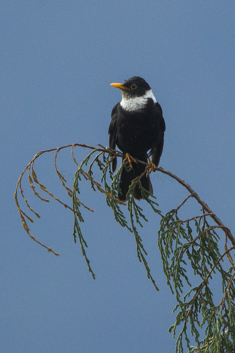 White-collared Thrush - Bhutan_S4E9709